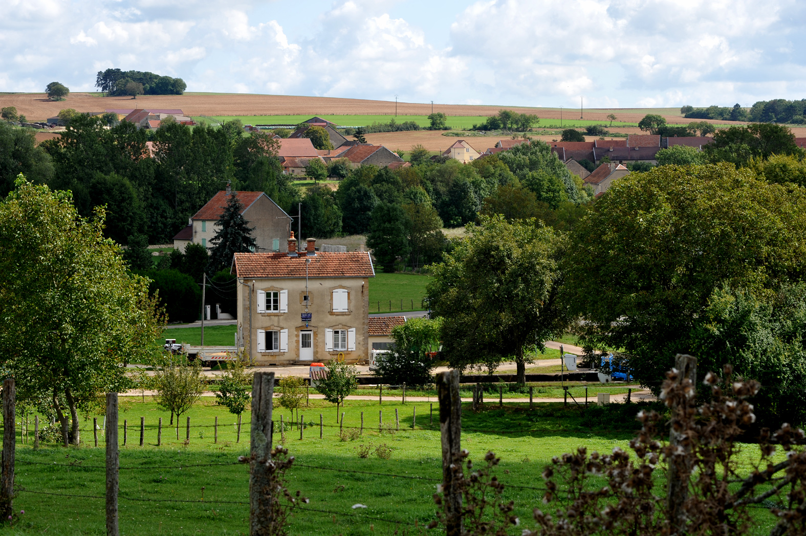 Canal lock No. 22 in Cusey at the Canal entre Champagne et Bourgogne; Haute-Saône, France. View as Michel Hollard may have seen on 16th May 1941 when he tried for the first time to enter in the «Red Zone».